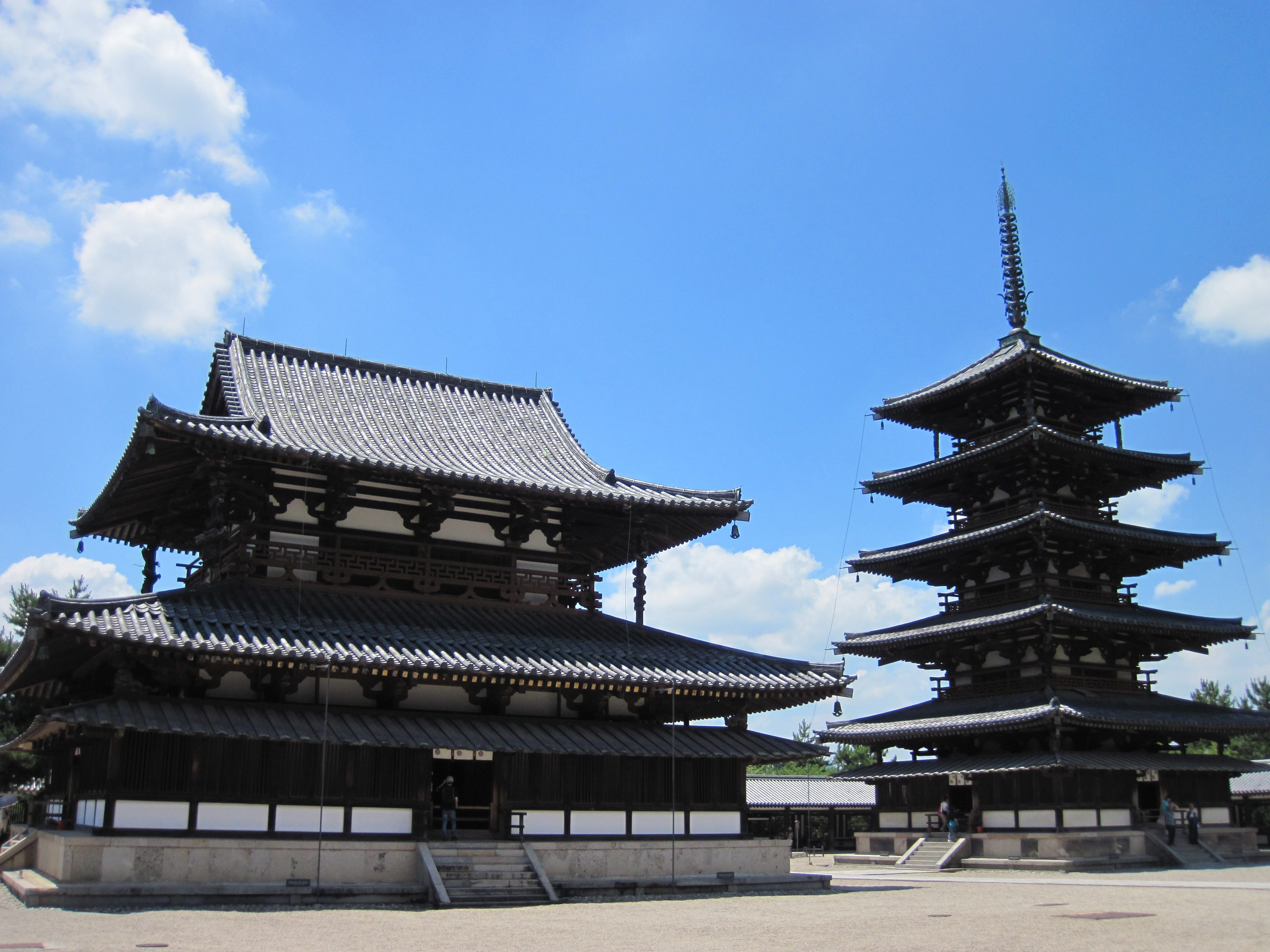 Horyu-ji National Treasure World heritage 国宝・世界遺産法隆寺